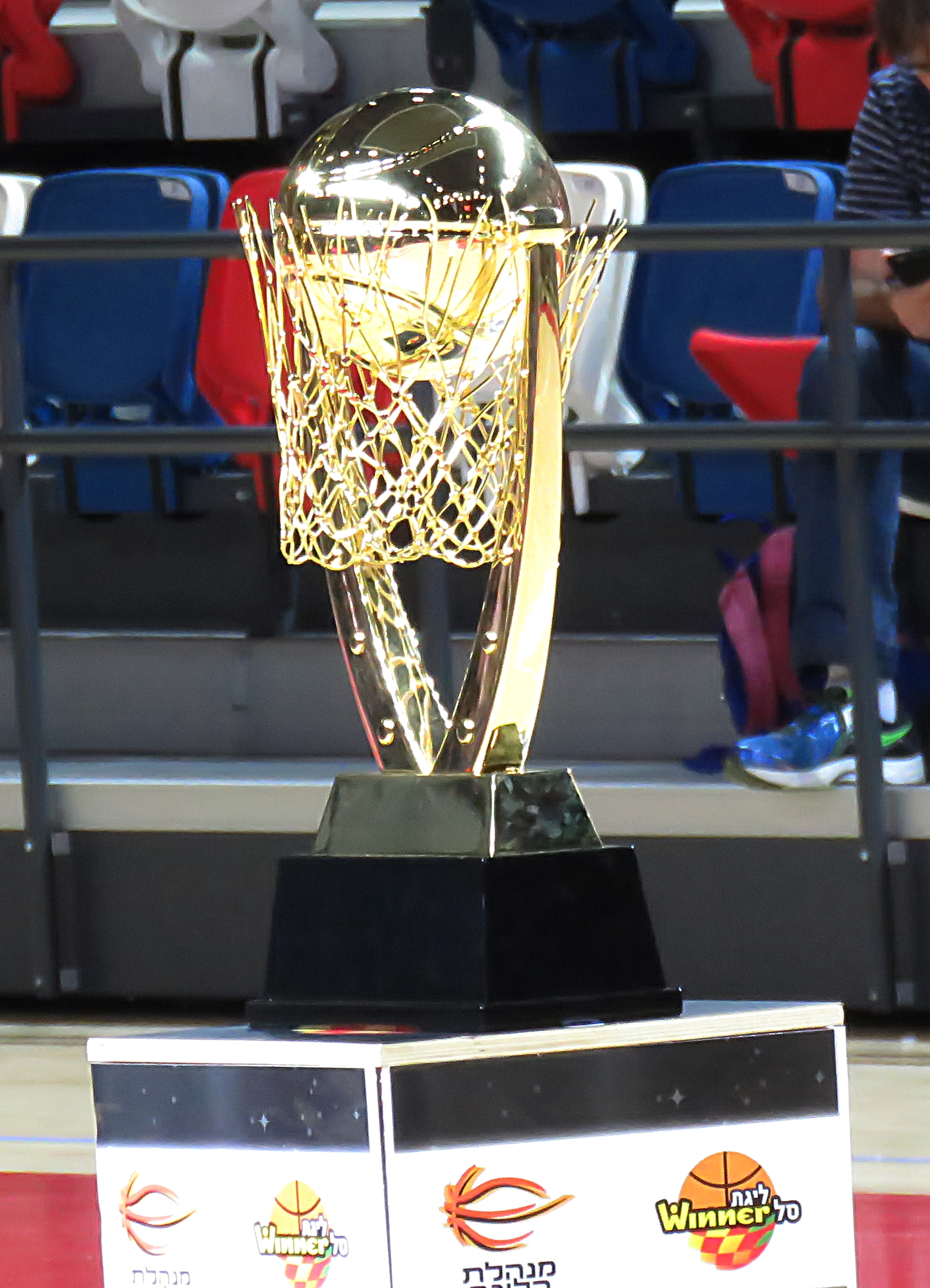 Maccabi Rishon LeZion vs. Maccabi Tel Aviv B.C., 26 September, 2015